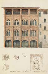 Palace Stampa from 1792 in Pisa, Italy